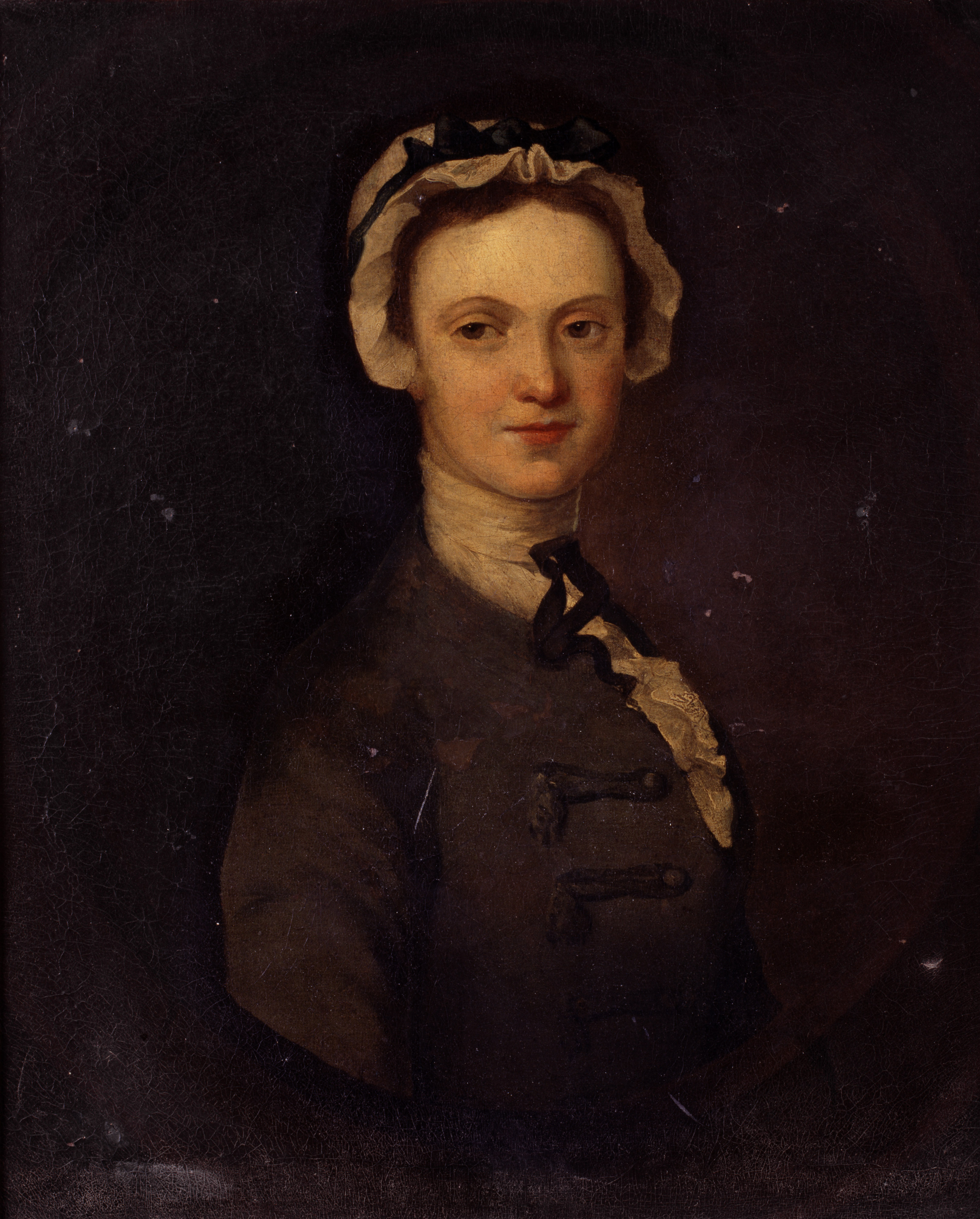 This portrait of Miss Catherine Jones b. 1701 d. 1786 bud. at Llanferres nr Mold." of Colomendy near Mold, Flintshire, was painted by Richard Wilson R A. The sitter was the artists cousin and owner of Colomendy Hall, near Llanferres, Denbighshire, where he died in 1782. She died four years later and was interred in Llanferres Church on 12 September 1786 aged 84.